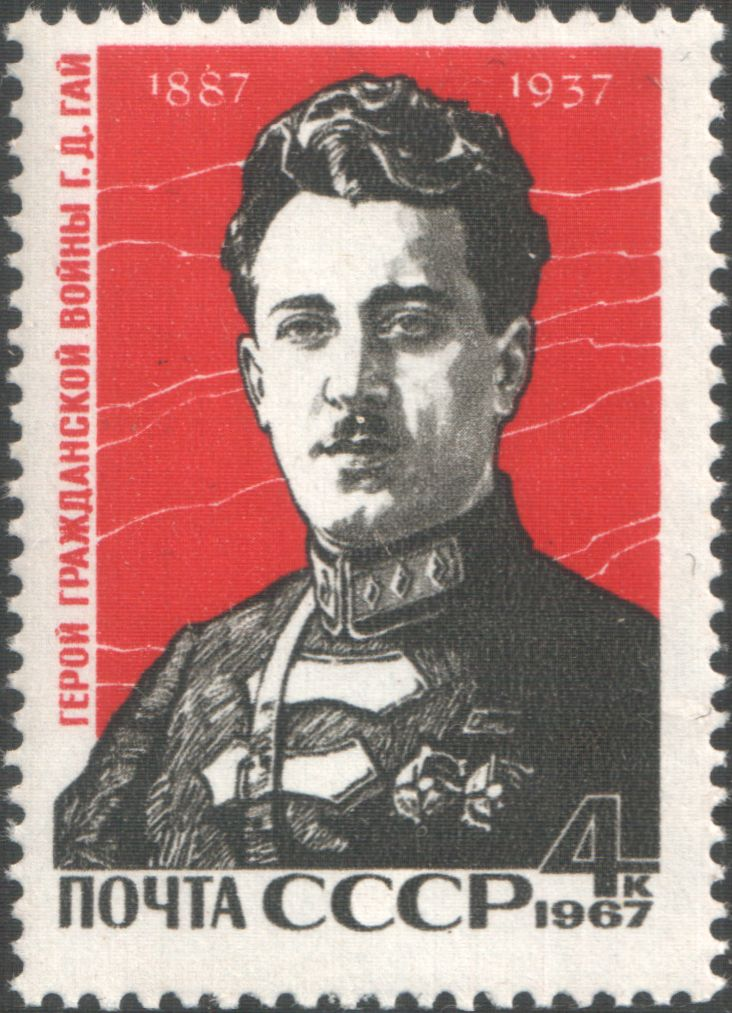 Stamp of the USSRː G. D. Gai (1887-1937), Corps Commander of the First Cavalry, 1920